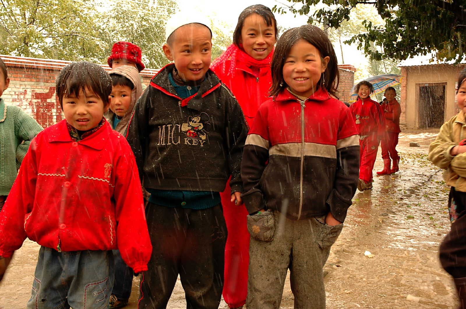 School kids coming back from lunch at a Primary School in Jishishan County, Gansu, China